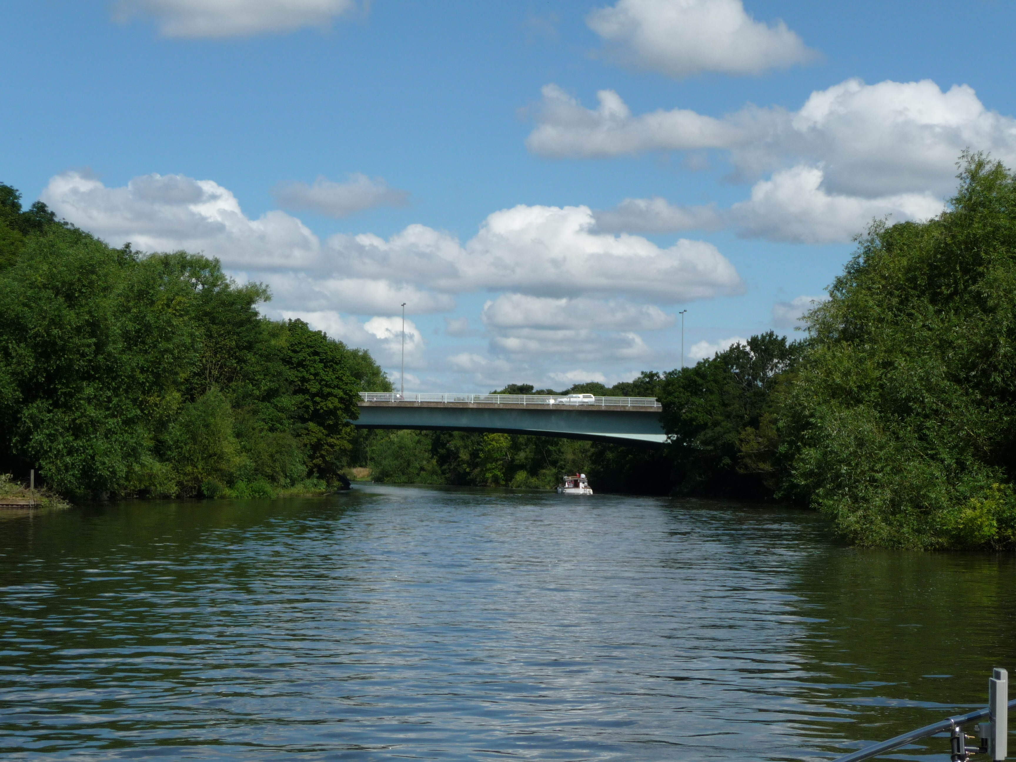 Bridge carrying the M4 motorway over the River Thames at Bray